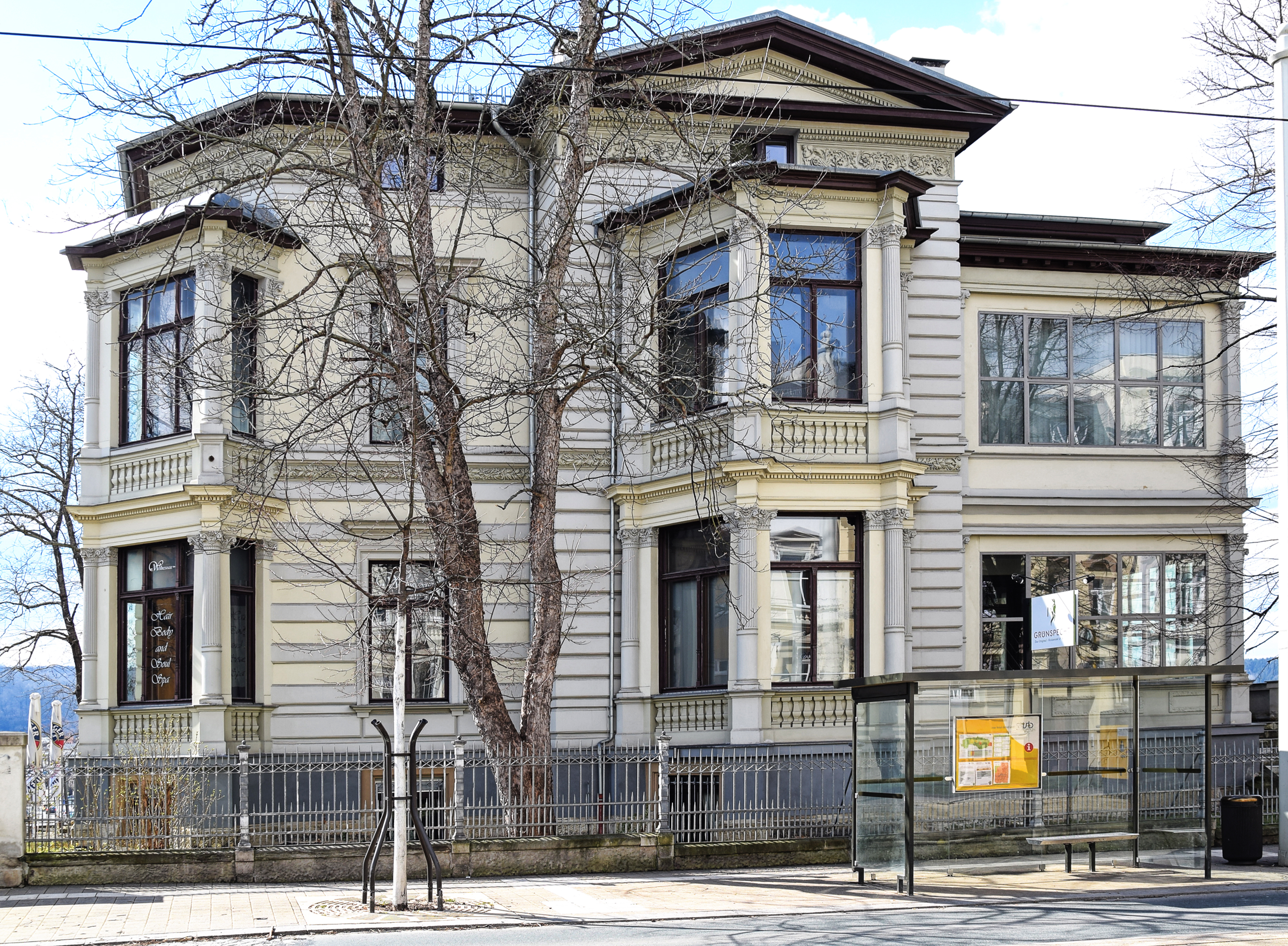 Villa Häußler at Friedrich-Engels-Straße 9 in Gera, Germany; built in 1883 by architect Schnacke